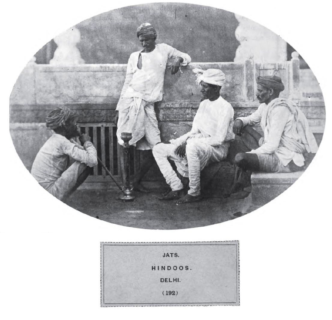 Ethnographic photograph of Jats in the vicinity of Delhi, India, 1868